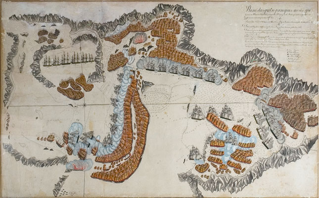 A Portuguese illustration of the naval combats between the Portuguese navy in Macau and Chinese pirates in 1809-1810, during the Battle of the Tiger's Mouth in the Pearl River Delta. Retrieved from the official site of the Portuguese Navy.